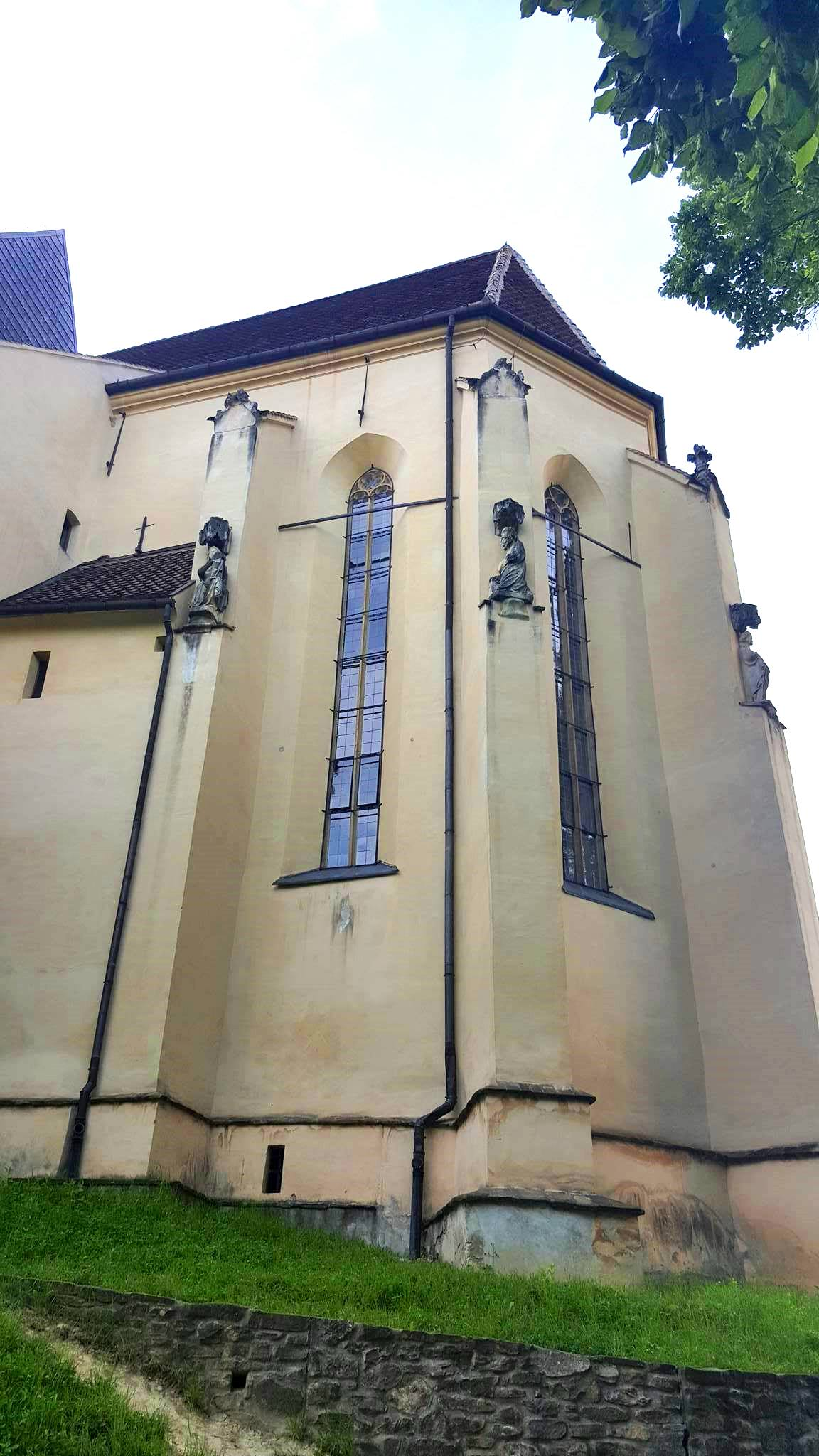 The left exterior sidewall of the church of sighisoara